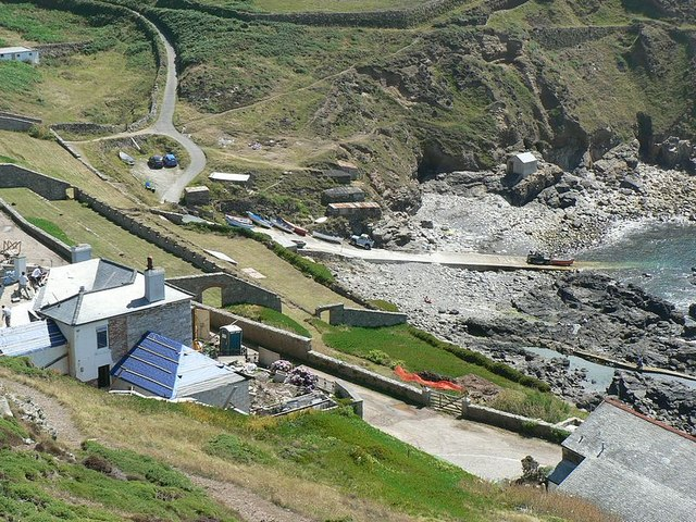 Priest's Cove and Cape House, Cape Cornwall. From the path, descending from the top of Cape Cornwall. See also 221998